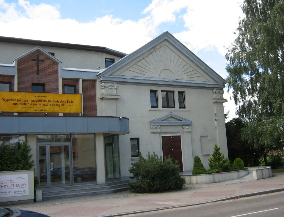 Church of Christ in Kołobrzeg, Poland.